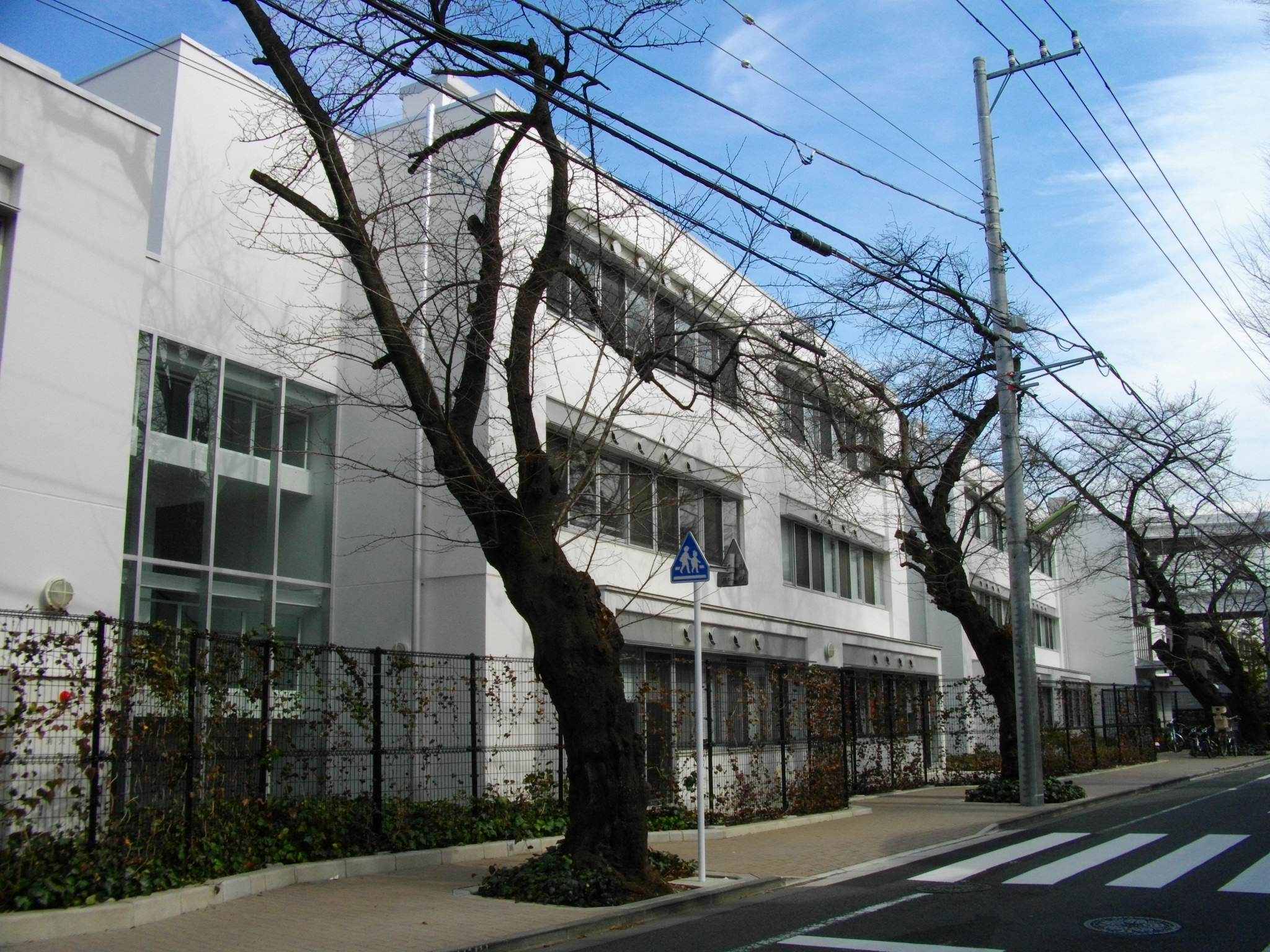 St. Mary's International School